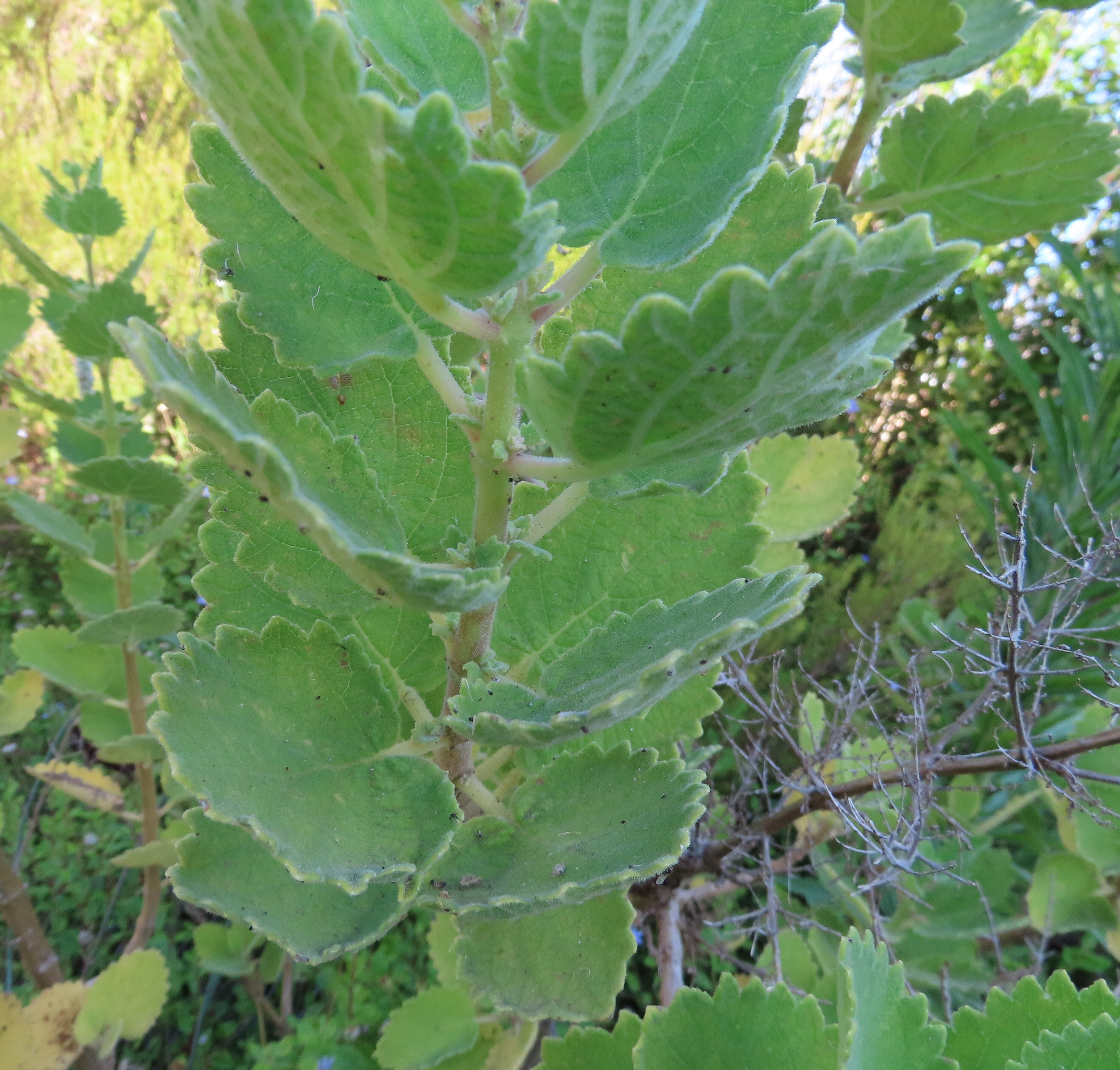 Tetradenia riparia leaves and buds display several aspects of plant morphology. The leaves are borne in opposite pairs; succeeding pairs are at right angles to the previous pair (decussate phyllotaxis); there are naked axillary buds in the leaf axils; the upper (dorsal) leaf surfaces began their growth facing towards the axil and therefore also to the stem, so their dorsal surface is called adaxial: "towards the axis" and the lower (ventral) surface faced away from the axis and so is called abaxial. The dorsal and ventral surfaces differ in texture and slightly in colour, so these are called dorsiventral, meaning that they have distinct dorsal and ventral sides.